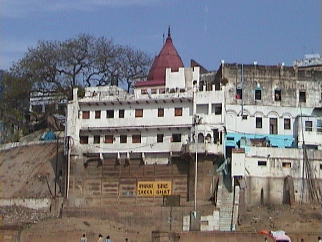 See Varanasi Development Cooperation Handbook/Stories/Responsible Development - Varanasi The Varanasi Heritage Dossier Kautilya Society Mediendatei abspielen Vrinda Dar - How we got involved in heritage protection of Varanasi